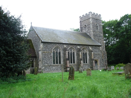 Tostock Villager's own photo of St Andrew's Church in Tostock, Suffolk. Taken in May 2007.